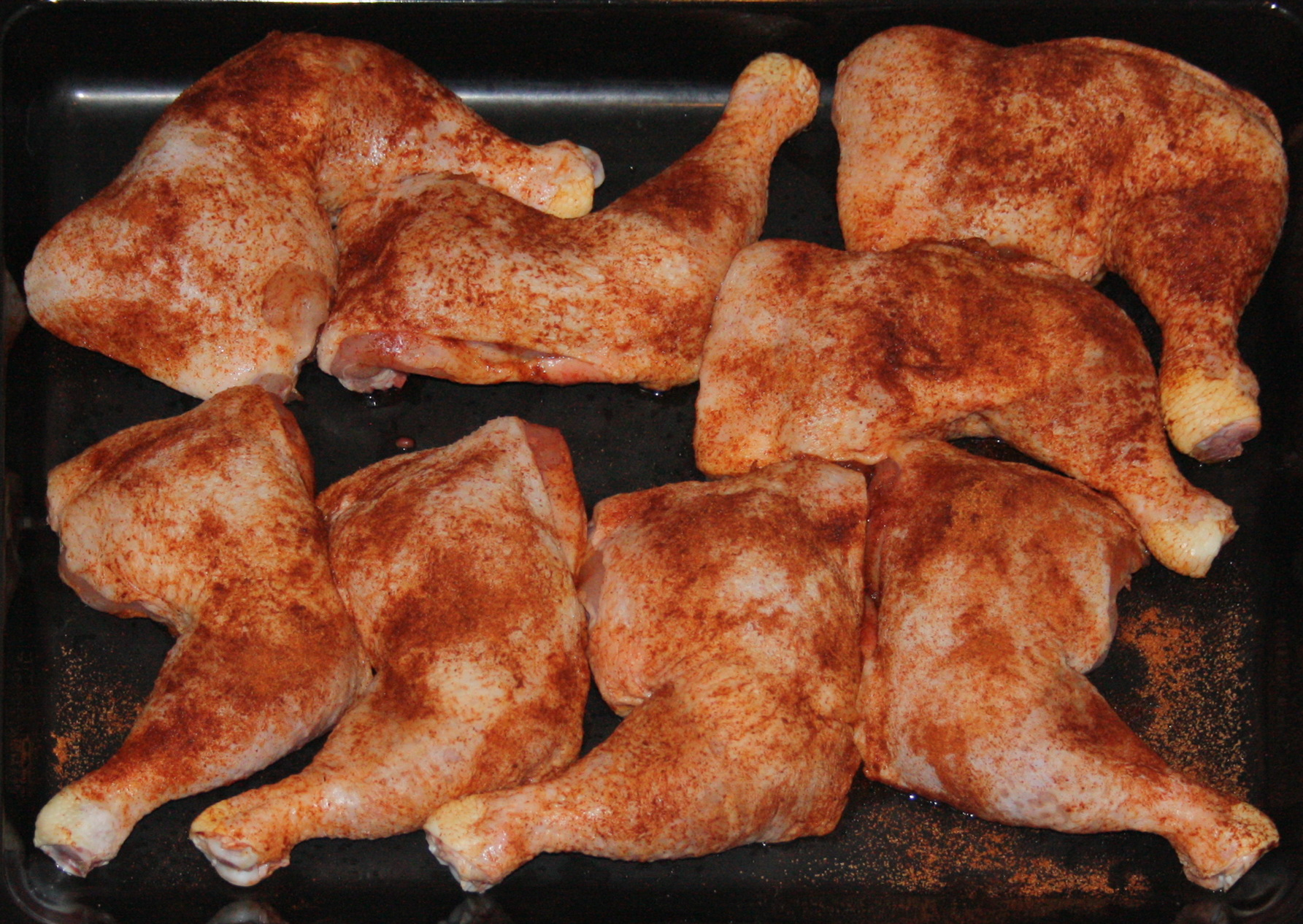 Chicken thigh